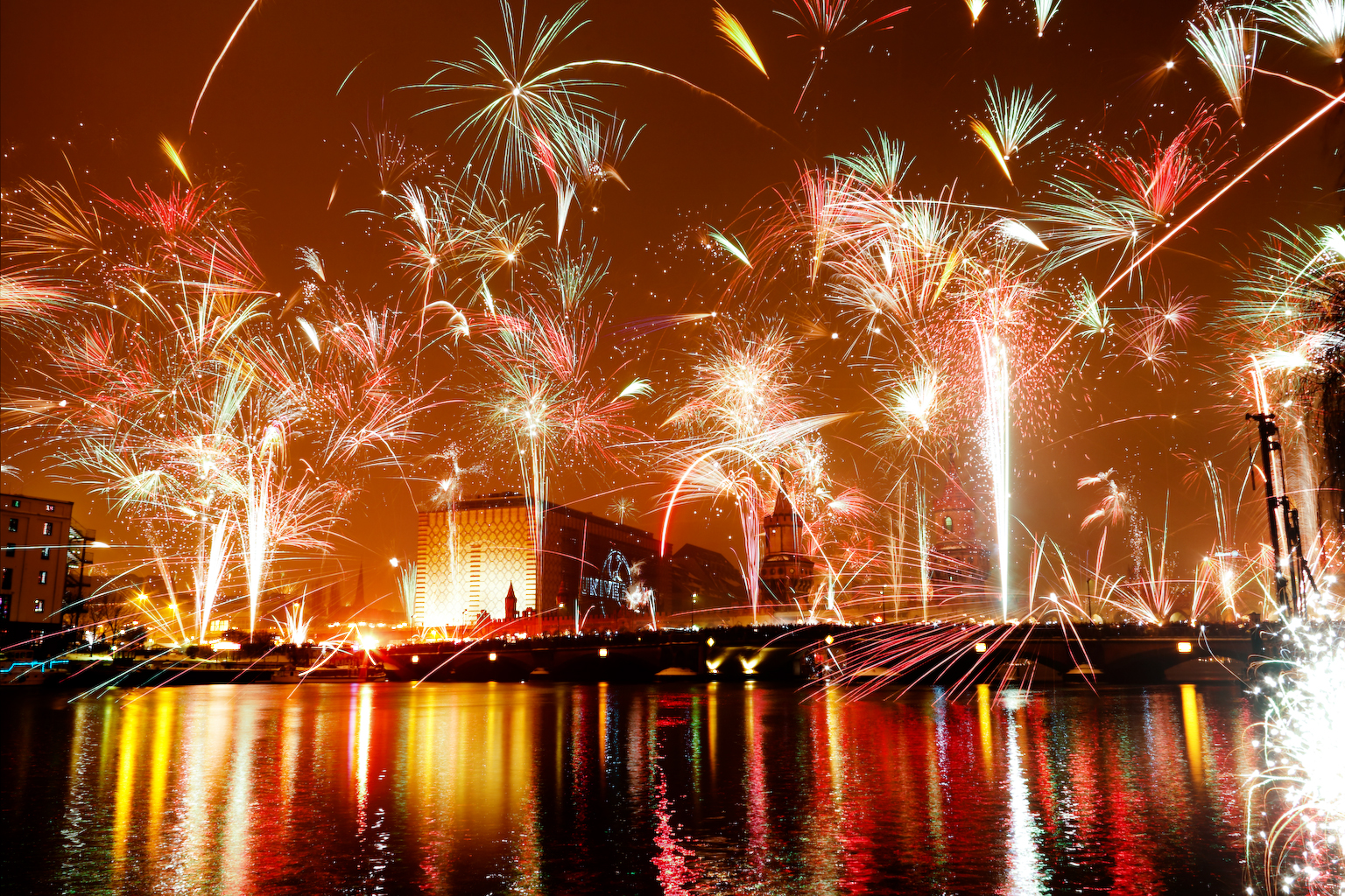 Fireworks at New Years Eve in Berlin, Germany